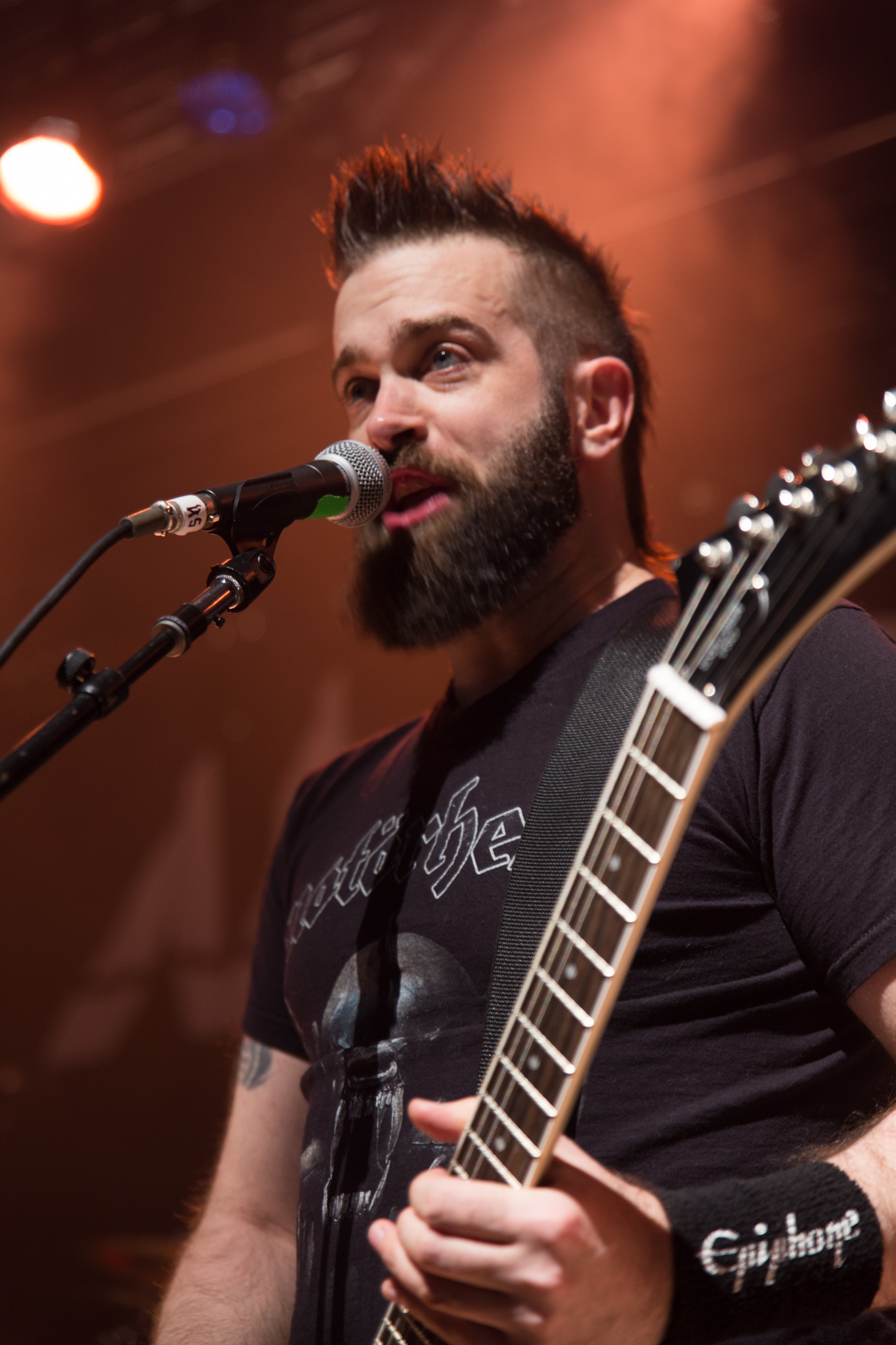 Annihilator performing at 70.000 tons of metal, january 2015